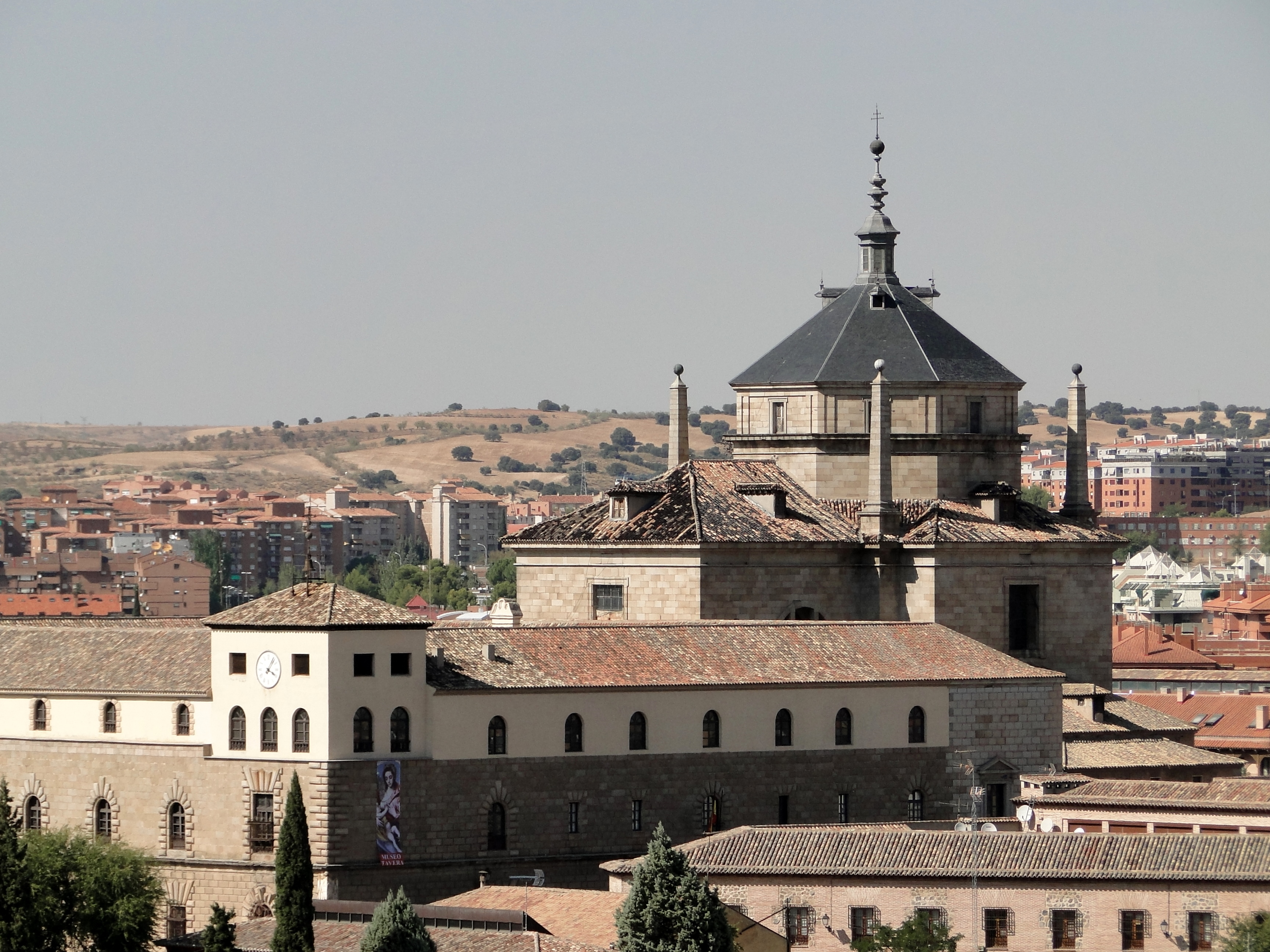 Tavera Hospital, Toledo, Spain